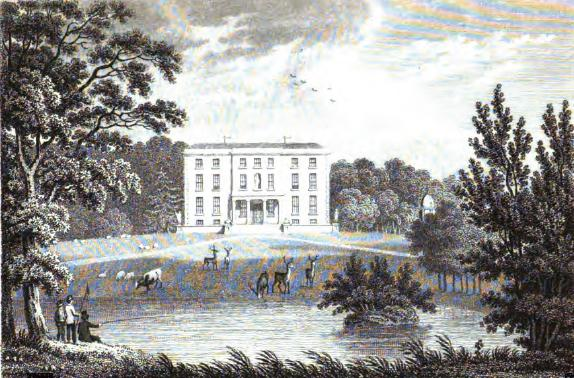 Ballynastragh House, Co. Wexford, Ireland - A Drawing Published 1826. Home of the Esmonde family. This image is from the following Book: James Norris Brewer, "The Beauties of Ireland: Being Original Delineations, Topographical, Historical, and Biographical, of each County", Vol. 2 (London, 1826). The Artist was George Petrie (died 1866).